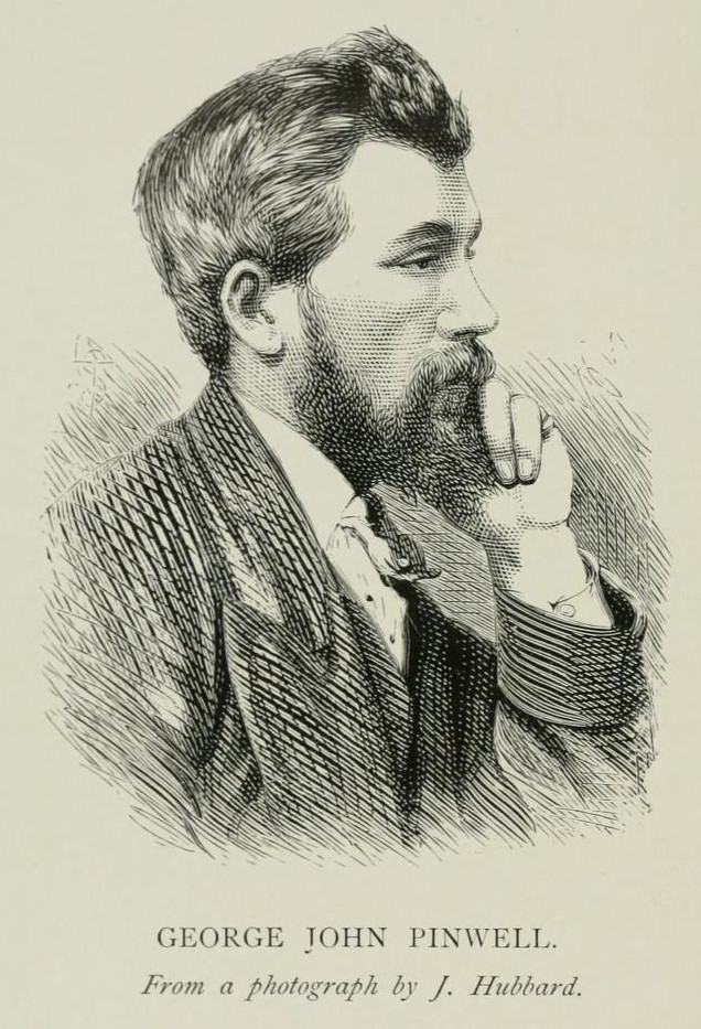 The Artist George J Pinwell 1842-1875 from Williamson's 1900 biography